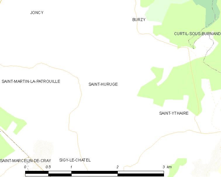 Map of French municipality